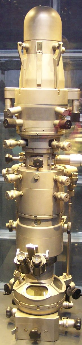 Electron microscope (Siemens Elmiskop 1A)